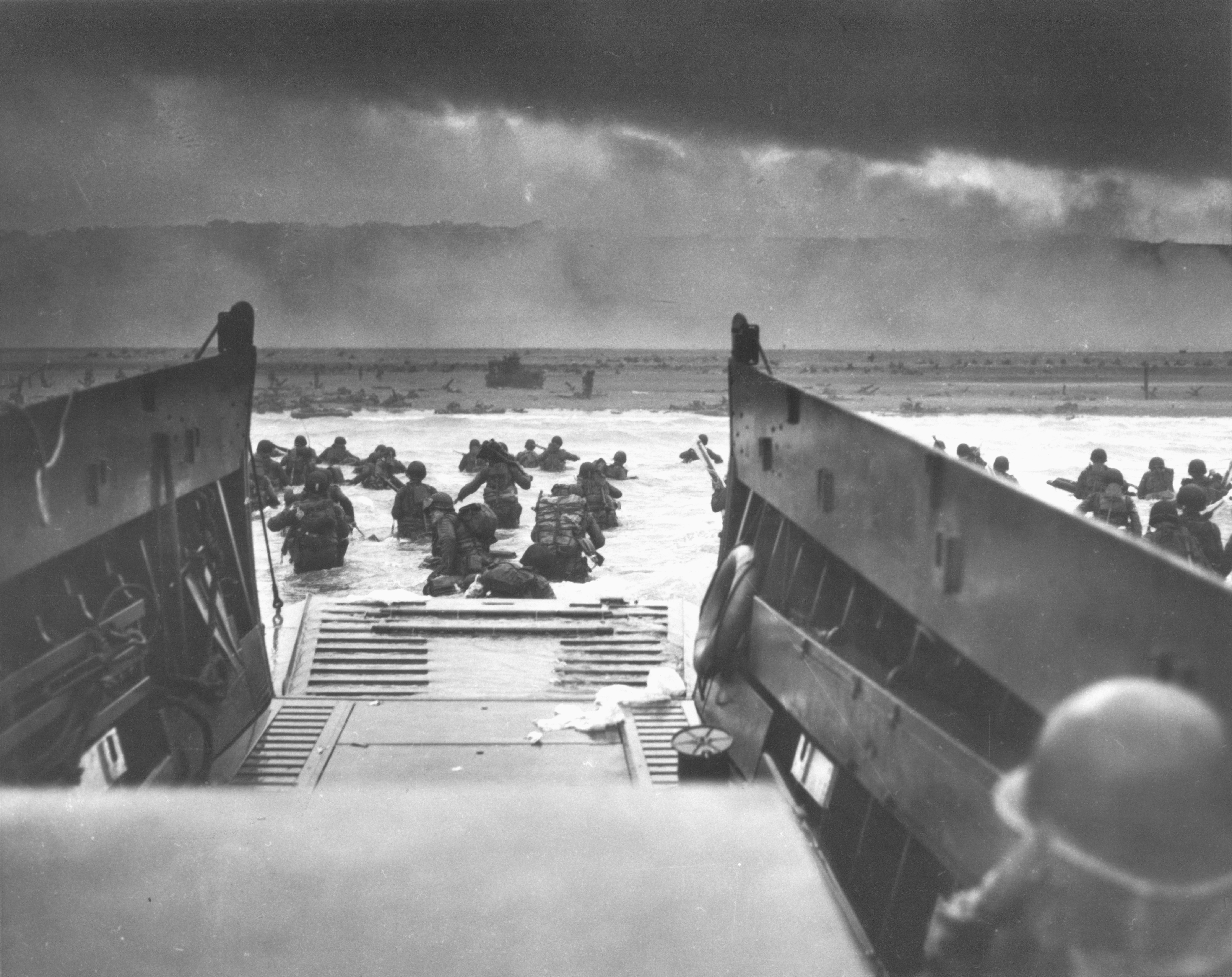 U.S. Army troops wade ashore on "Omaha" Beach during the "D-Day" landings, 6 June 1944.